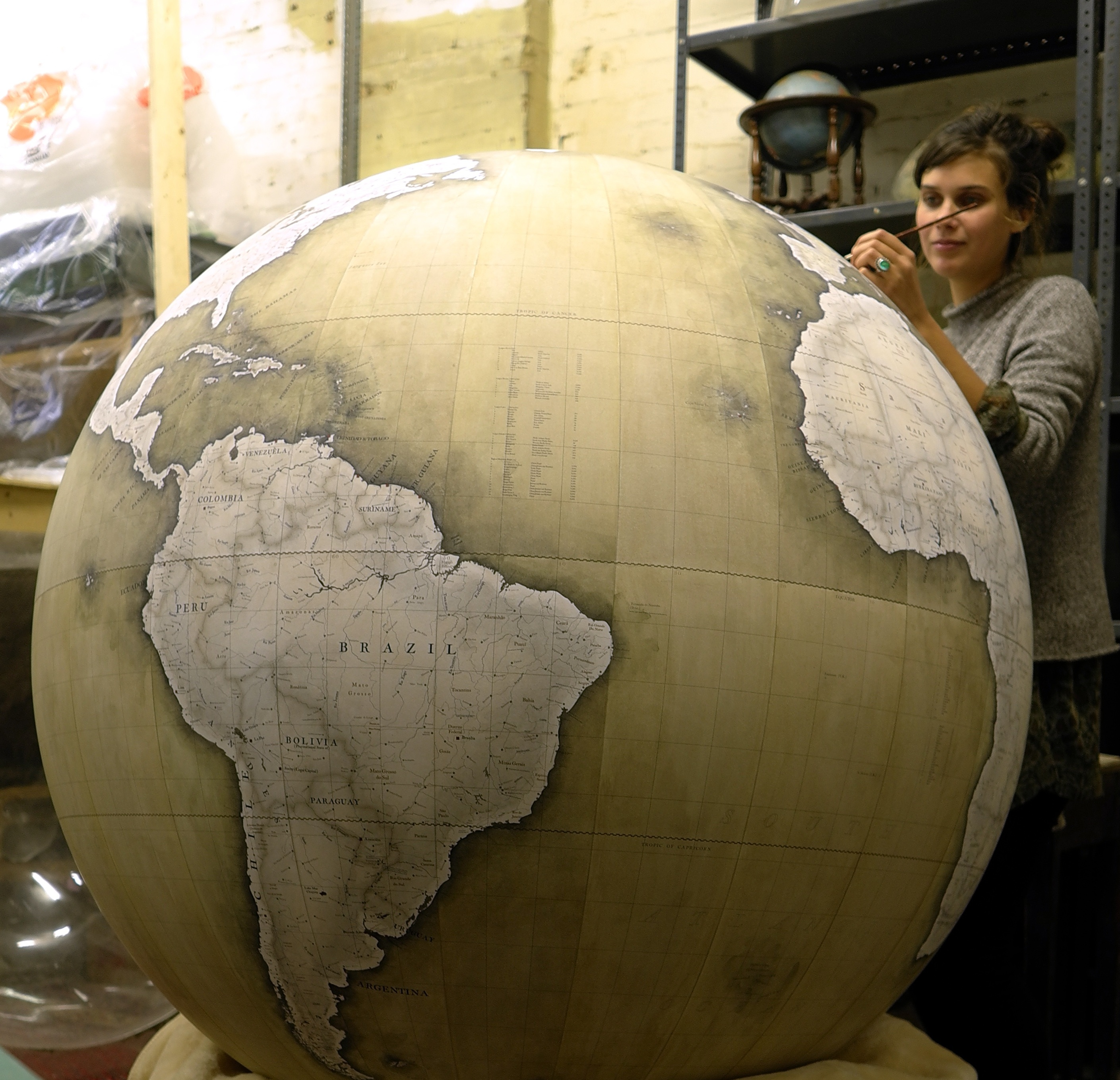 This photo was taken by Jade Fenster at Bellerby who has given her complete authorisation for it to be used freely on Wikipedia as long as the picture is correctly attributed to Bellerby & Co if the picture is re-used. From: Jade Fenster Date: June 01, 2015 12:26:21 PM To: Ollie Dewis Subject: Permission for use of my photos HI Ollie, You have permission to use all my photos. Included are some more of the Churchill. Both the one we are working on now and the last we made. Best, Jade Fenster Instagram @globemakers